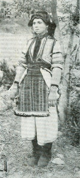 Woman in national costumes from Voden